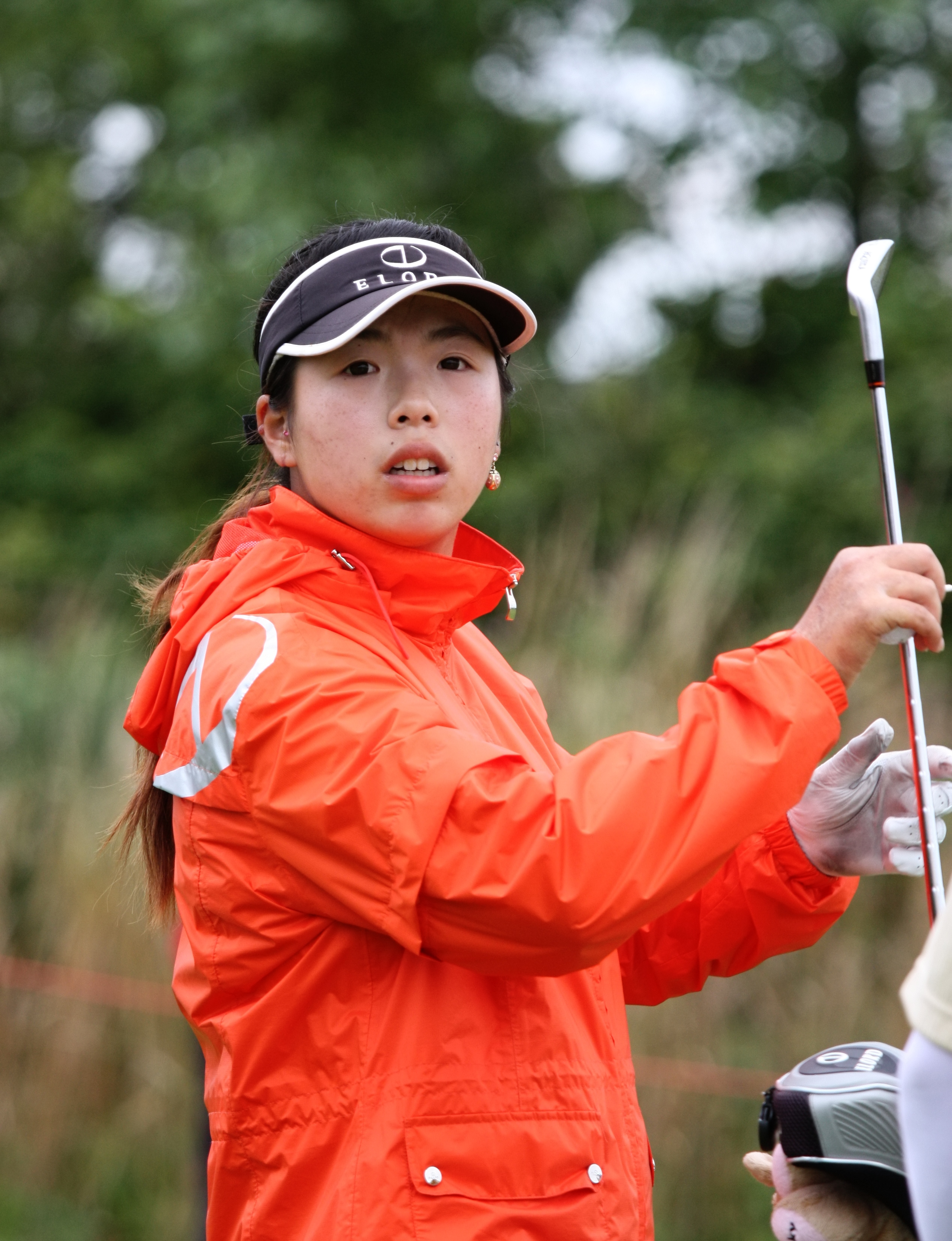 LYTHAM ST ANNES, UNITED KINGDOM - JULY 29: Shanshan Feng of China on the 12th tee during third practice round before 2009 Ricoh Women's British Open held at Royal Lytham & St Annes on July 29, 2009 in Lytham St Annes, England. (Photo by Wojciech Migda)